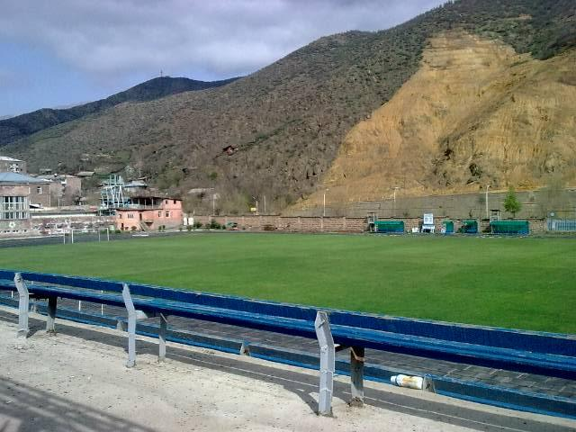 Gandzasar Stadium in Kapan